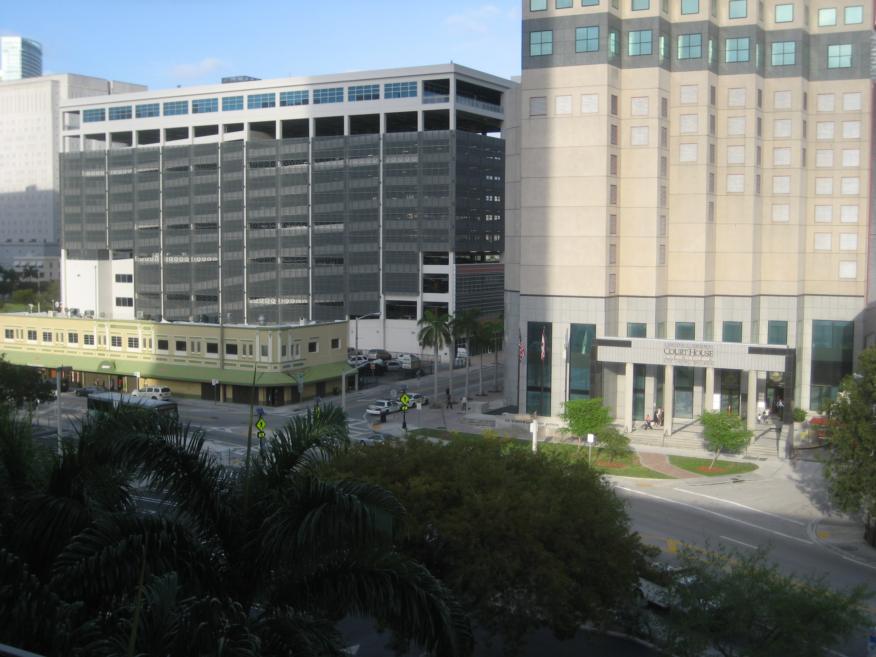 One thing that struck me while riding the Metromover around downtown Miami was the overabundance of parking. This at least 10-story parking garage sits across the street from Government Center Metrorail and Metromover station, which is one of the largest transit hubs in the city. This is a sad reality. The location is ideal for a transit oriented development with little or no parking that would encourage more people to use the city’s underused rail system. The availability of so much parking capacity, which I saw repeated along the Metromover’s route, creates ample supply that drives down the cost of parking and further erodes the financial incentive of transit (and let’s not kid ourselves, for some people it is a simple math equation) for those who have the choice to drive. This is not an isolated incidence of shortsighted transit- or even pedestrian-oriented planning. The 30-minute trip (according to Google trip planner) I took on Metromover, Metrorail and Metrobus ended up being far less pleasant than it could have been because of a lack of sidewalks between the bus stop and my destination in Coral Gables. In addition, the recent reports of Aaron Cohen, a father, husband and amateur triathalete, being killed while cycling over one of the city’s causeways highlights the issues that face this car oriented metropolitan region. His death sparked a discussion of what cyclists and drivers think of each other on local public radio.